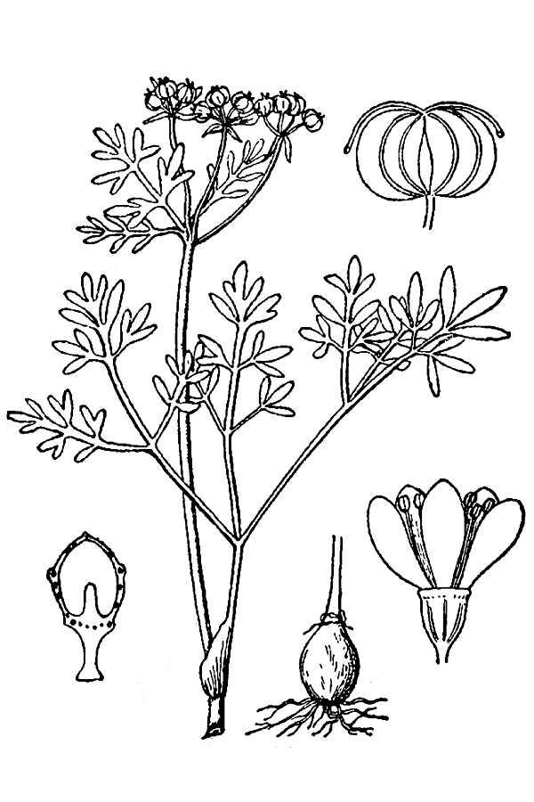 Line drawing of Erigenia bublbosa.